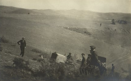 Bulgaria